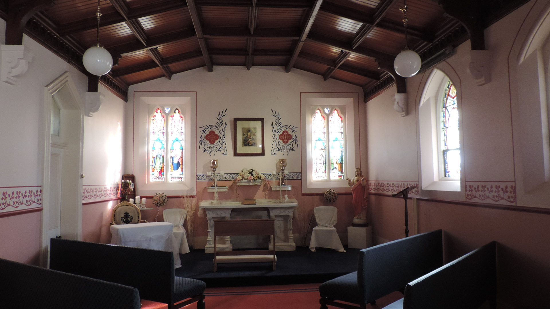 Our Lady of Assumption Convent, Warwick - chapel, 2015